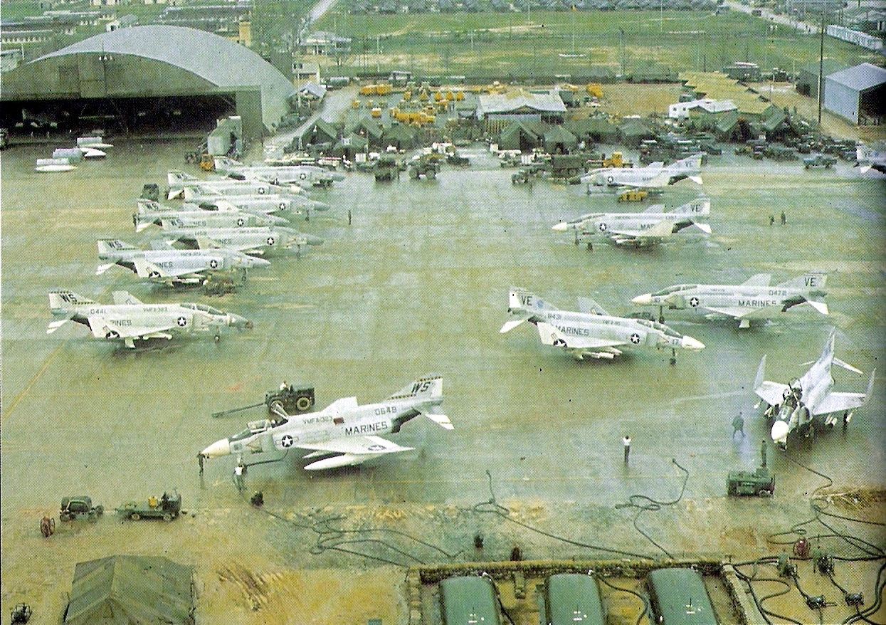 U.S. Marine Corps McDonnell F-4B Phantom II fighters of fighter-bomber squadrons VMFA-115 and VMFA-323 being refueled at Da Nang, South Vietnam, in January 1966.